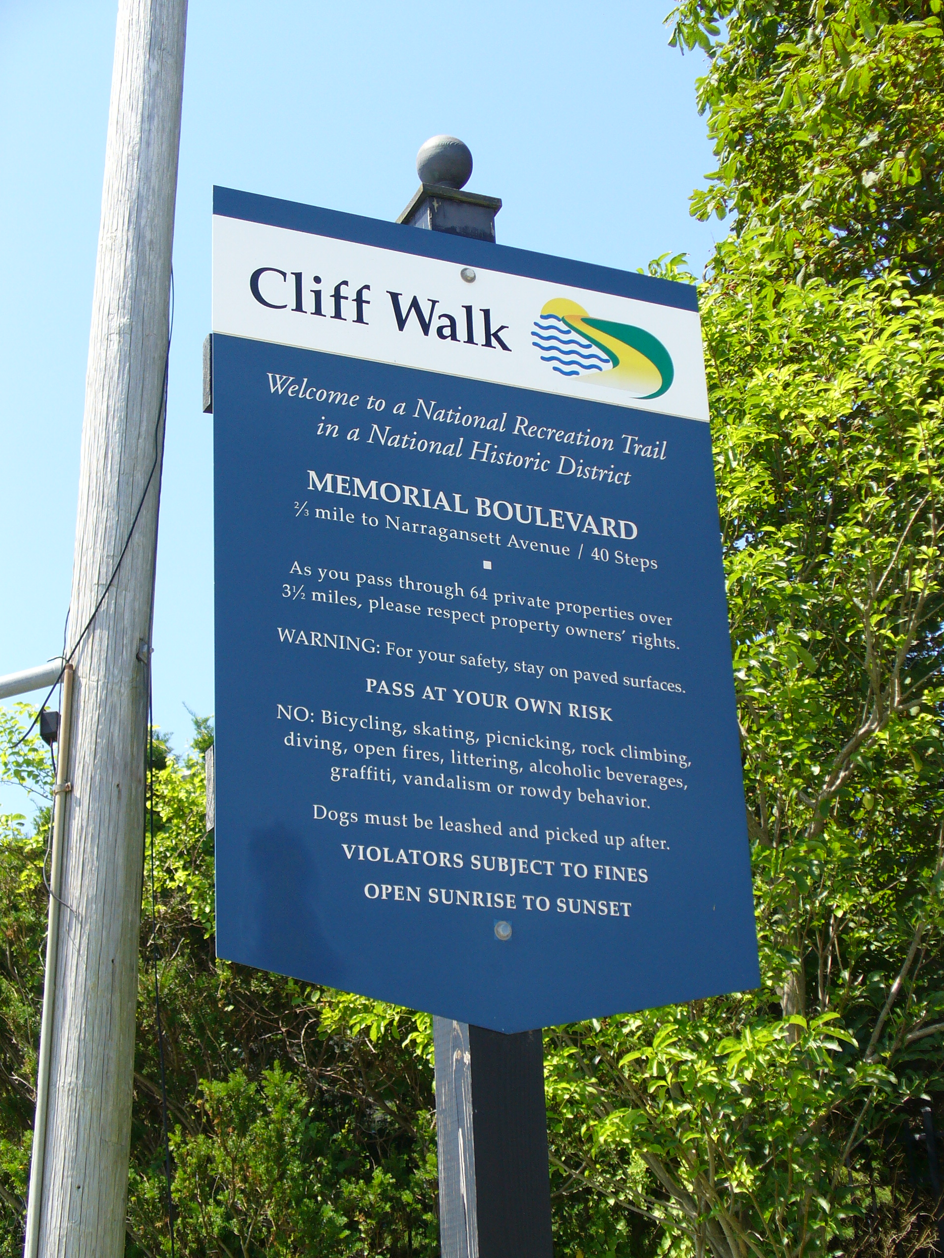 A picture of the sign marking Newport, RI's Cliff Walk